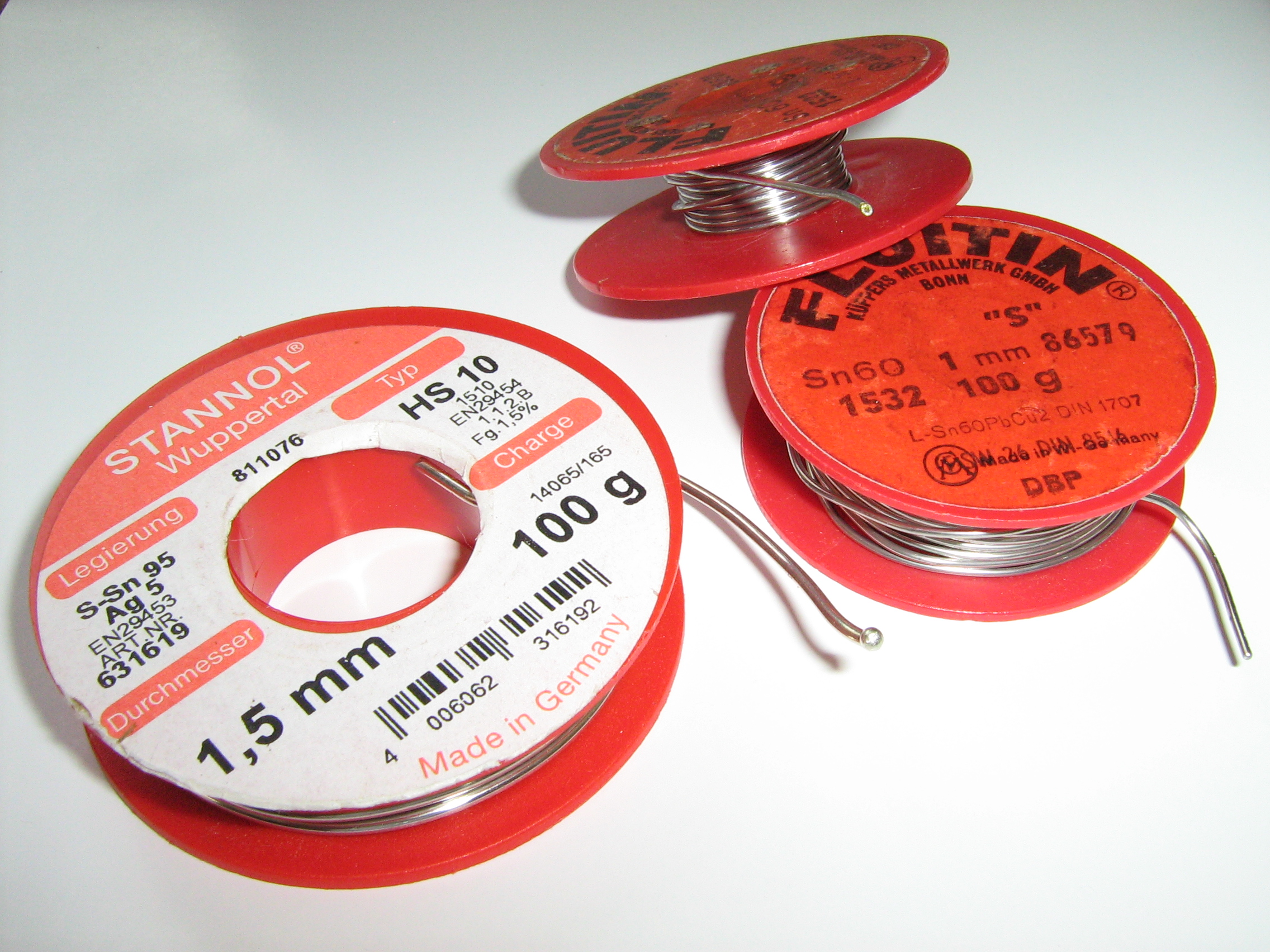 Solder, for use with electronics. The solder on the left is lead-free